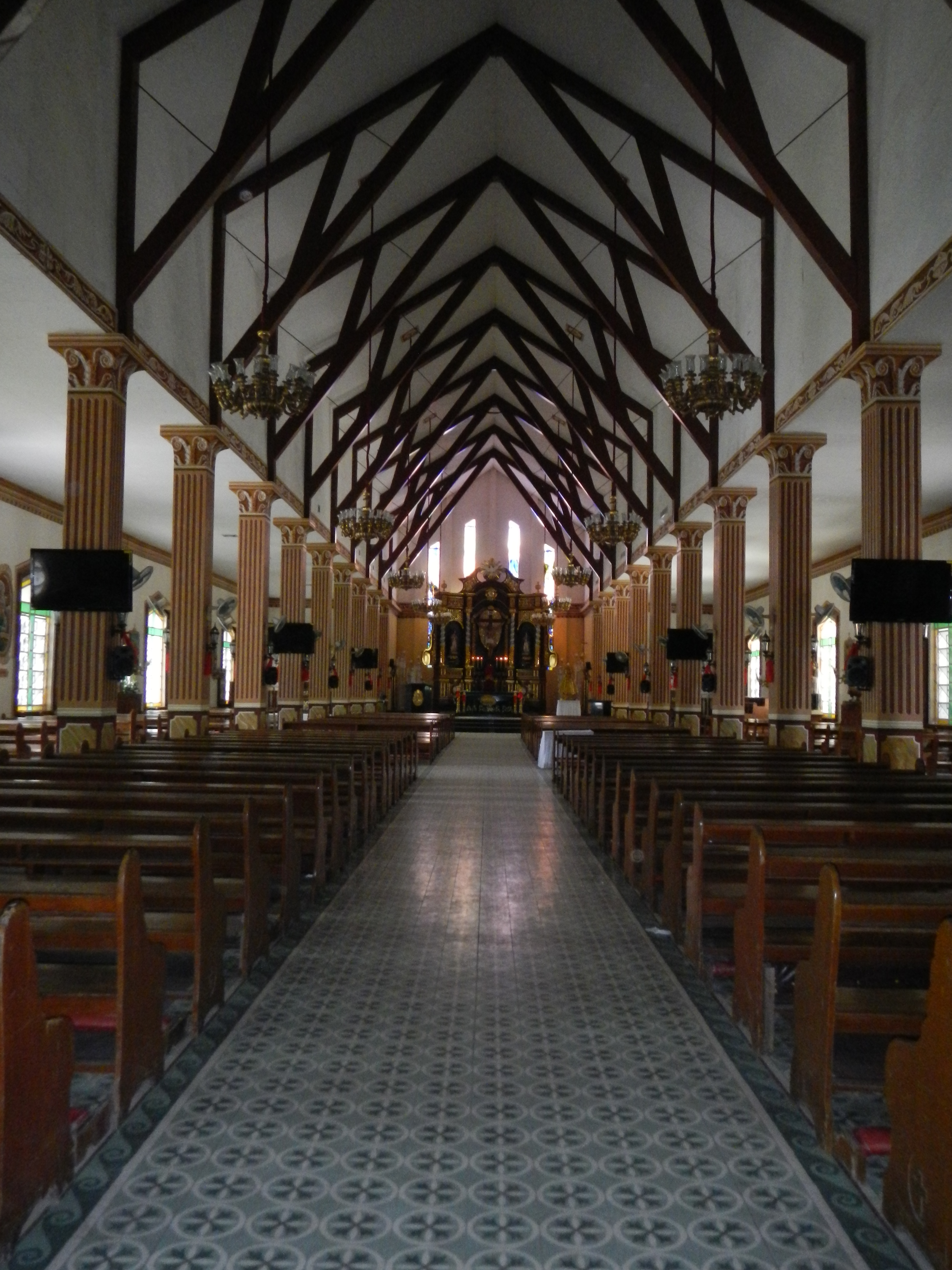 Upload Wizard photos of - the Saint Roch Parish Church of Lemery [1] Vicariate II – St. John Maria Vianney - belongs to the [2] Roman Catholic Archdiocese of Lipa - Illustre Ave., in front of the Municipal Hall of Lemery, [3] [4] [5] - Town Proper, Centro, downtown and junction, crossing - Lemery, Batangas[6] near the 8-kilometer Pansipit River [7] (a short river located in the Batangas province of the Philippines, the sole drainage outlet of Taal Lake, which empties to Balayan Bay. The river stretches about 9 kilometres (5.6 mi) passing along the towns of Agoncillo, Lemery, San Nicolas and Taal serving as border between the communities. It has a very narrow entrance from Taal Lake [8] [9] 13° 53' 48.28" N 120° 54' 46.32" E[10] [11]Coordinates: 13°52'40"N 120°55'2"E [12]13° 55' 37.15" N 120° 56' 46.21" E [13] Summer heat arrives in Lemery, Batangas [14] Batangas tilapia breeders fight for survival) and the - Lemery Municipal Hall[15] Coordinates: 13°53'0"N 120°54'50"E St. Mary's Educational Institute [16] Coordinates: 13°52'59"N 120°54'47"E.